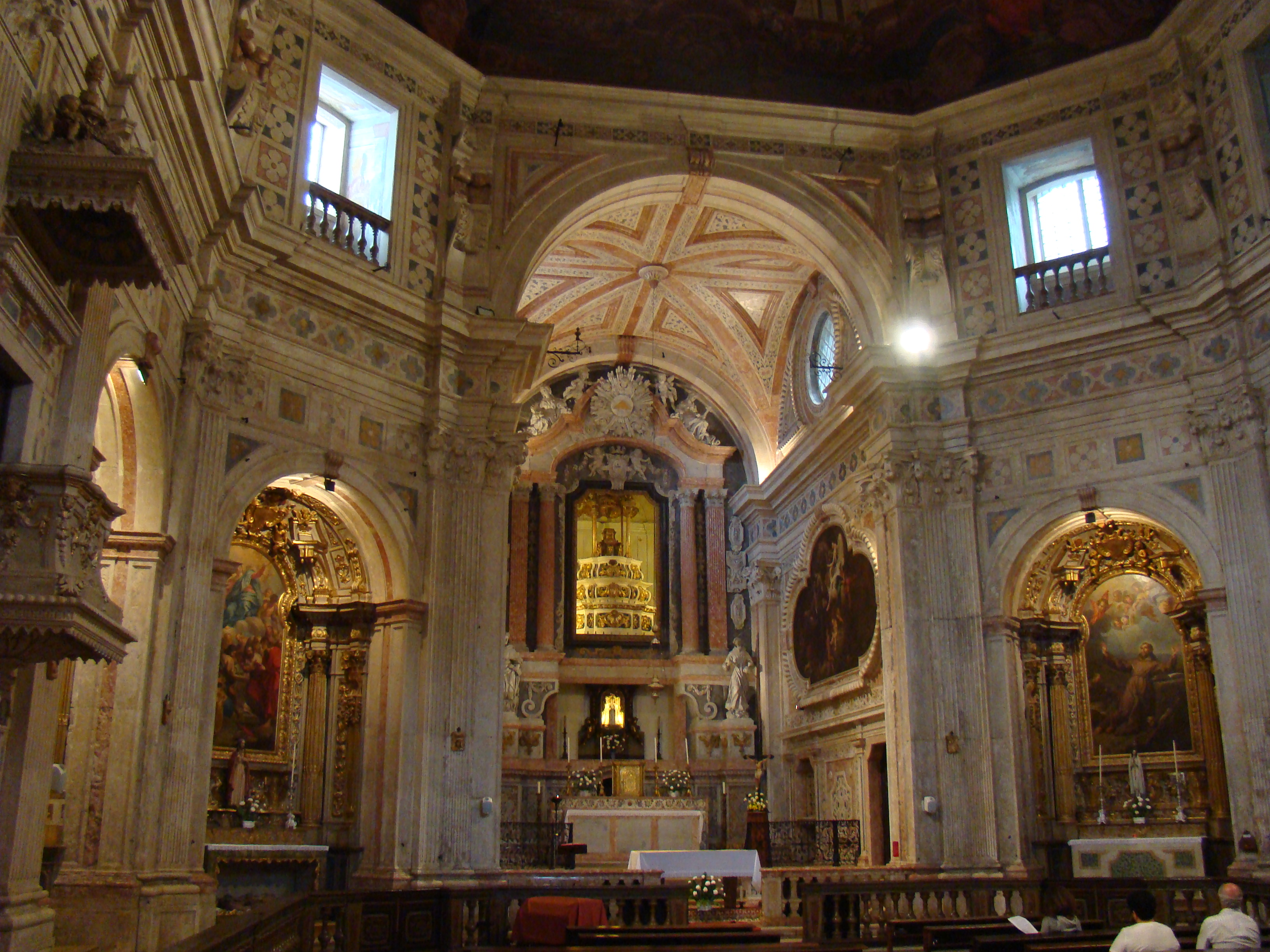 Menino Deus (Child God) church in Alfama, Lisbon Portugal